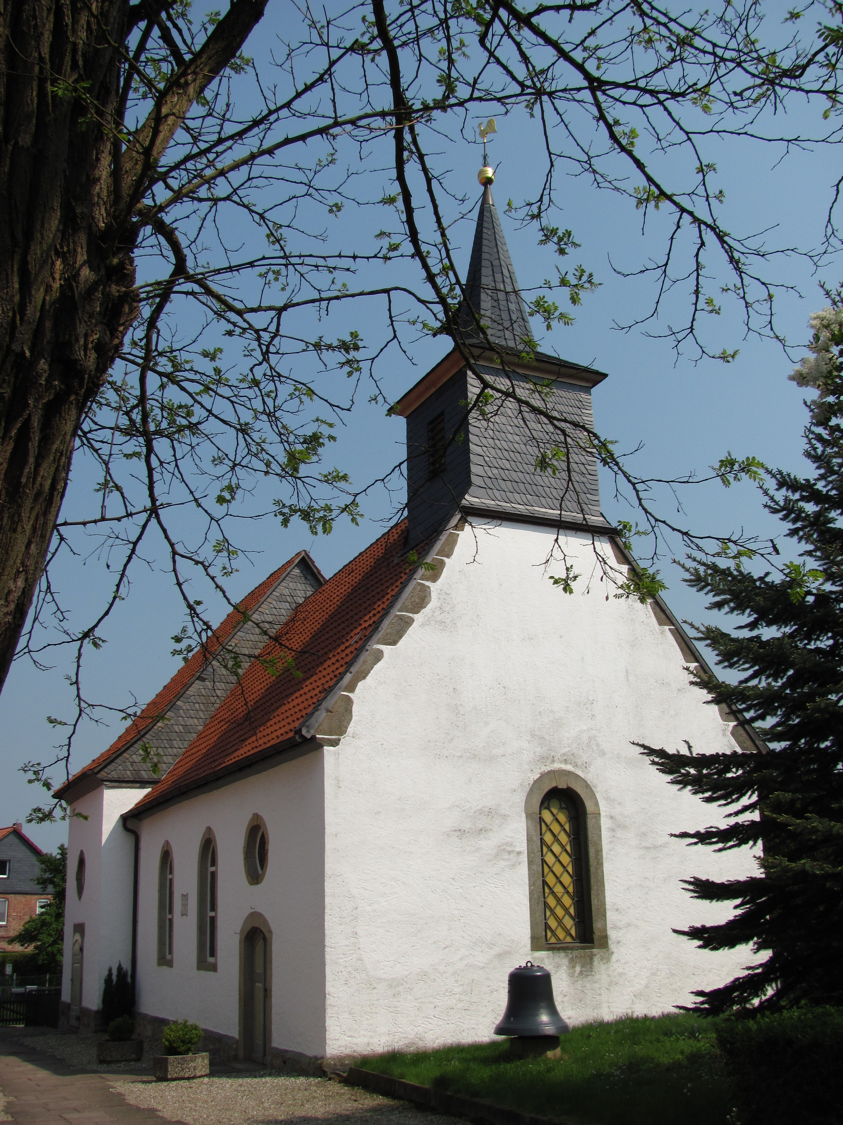 St. Thomas Protestant Church (1297), Schellerten-Wendhausen, Lower Saxony, Germany